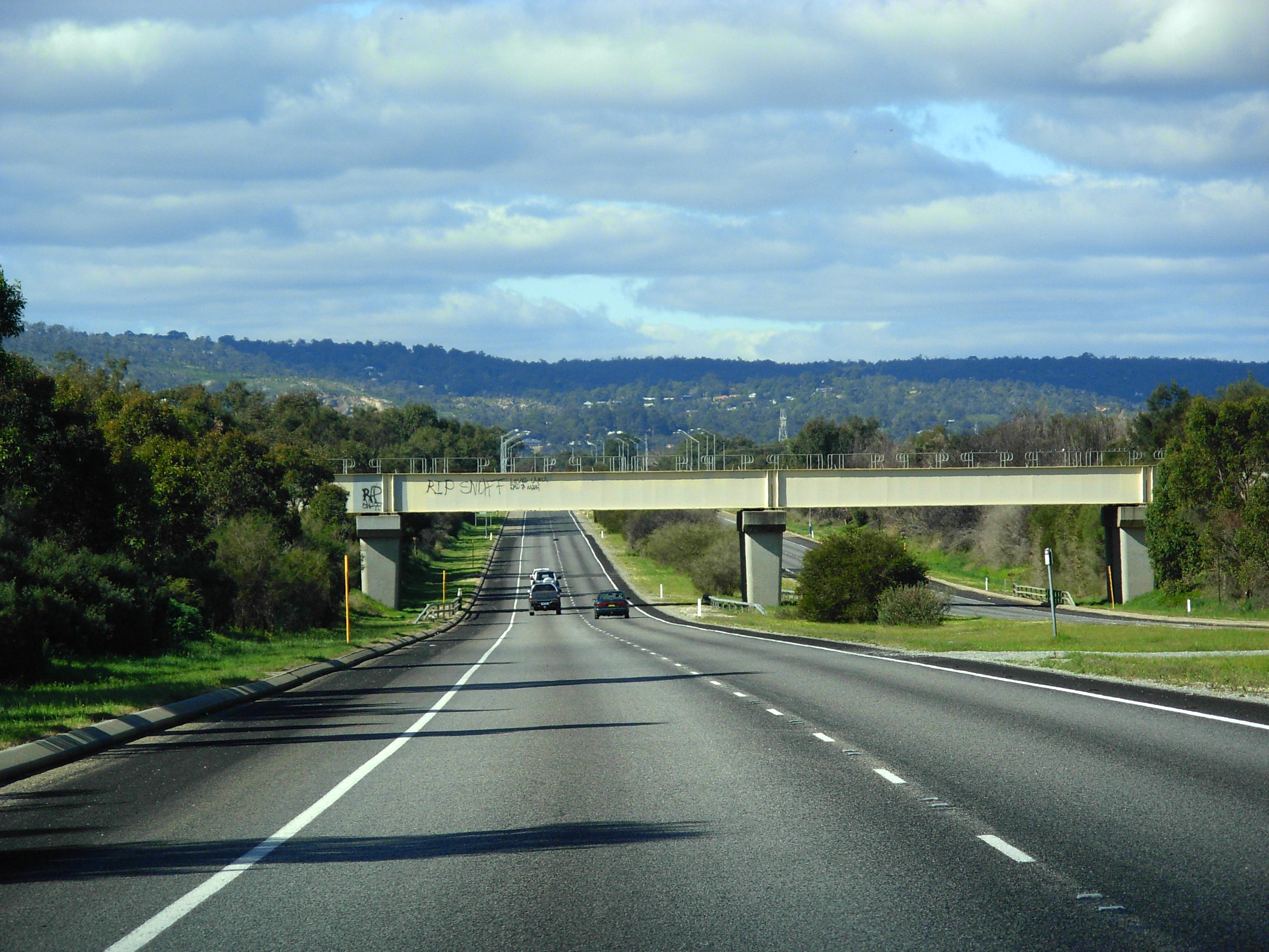 Great eastern highway by-pass, with Darling Scarp at the top of photo. Bridge crossing is the Kedwale to Midland railway line, and land to the right is the new BGC brickworks. Greenmount is to the left of the picture, the suburb in the centre and on the right of the scarp is Darlington